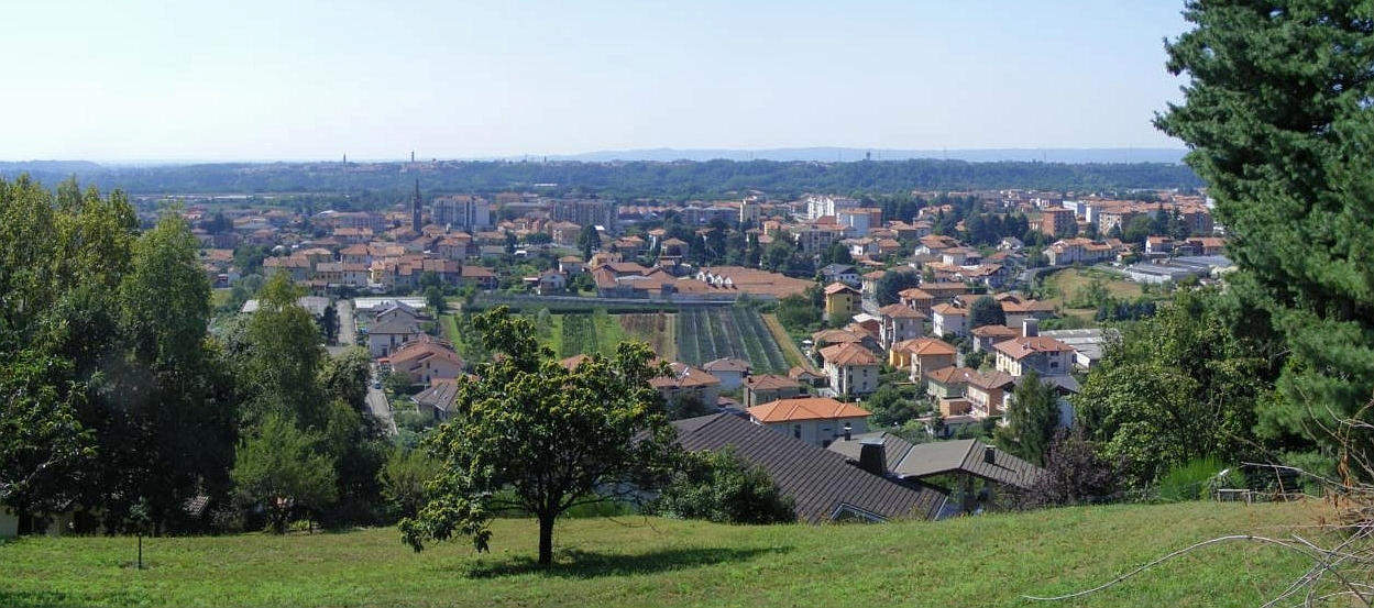 Vigliano Biellese (BI, Italy): panorama from north